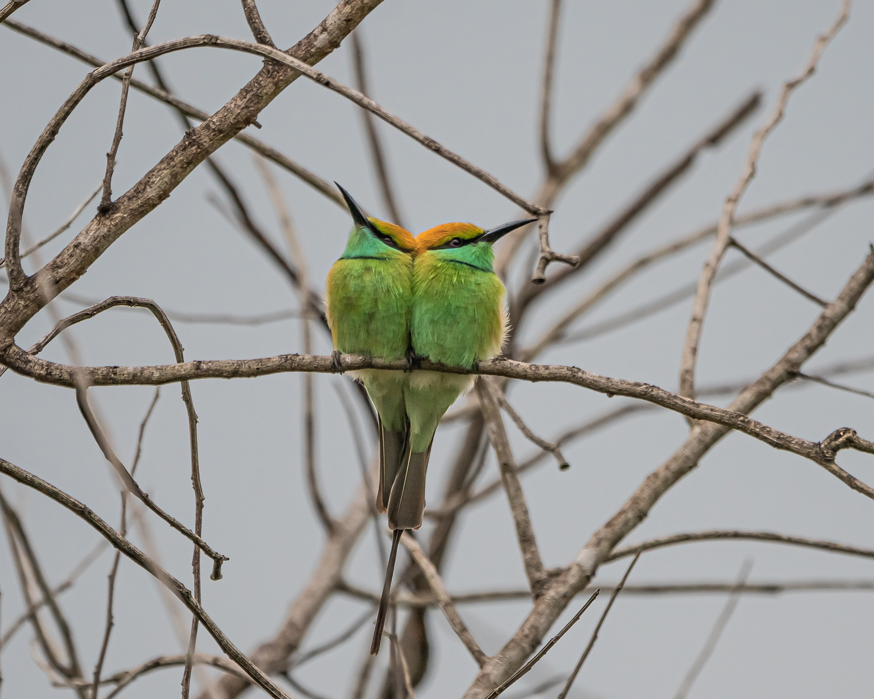 Green Bee-eaters in Yala National Park Block V at Weheragala Reservoir, Sri Lanka